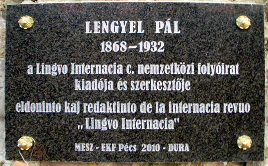 Plaque of Pál Legyel Pécs, Hungary